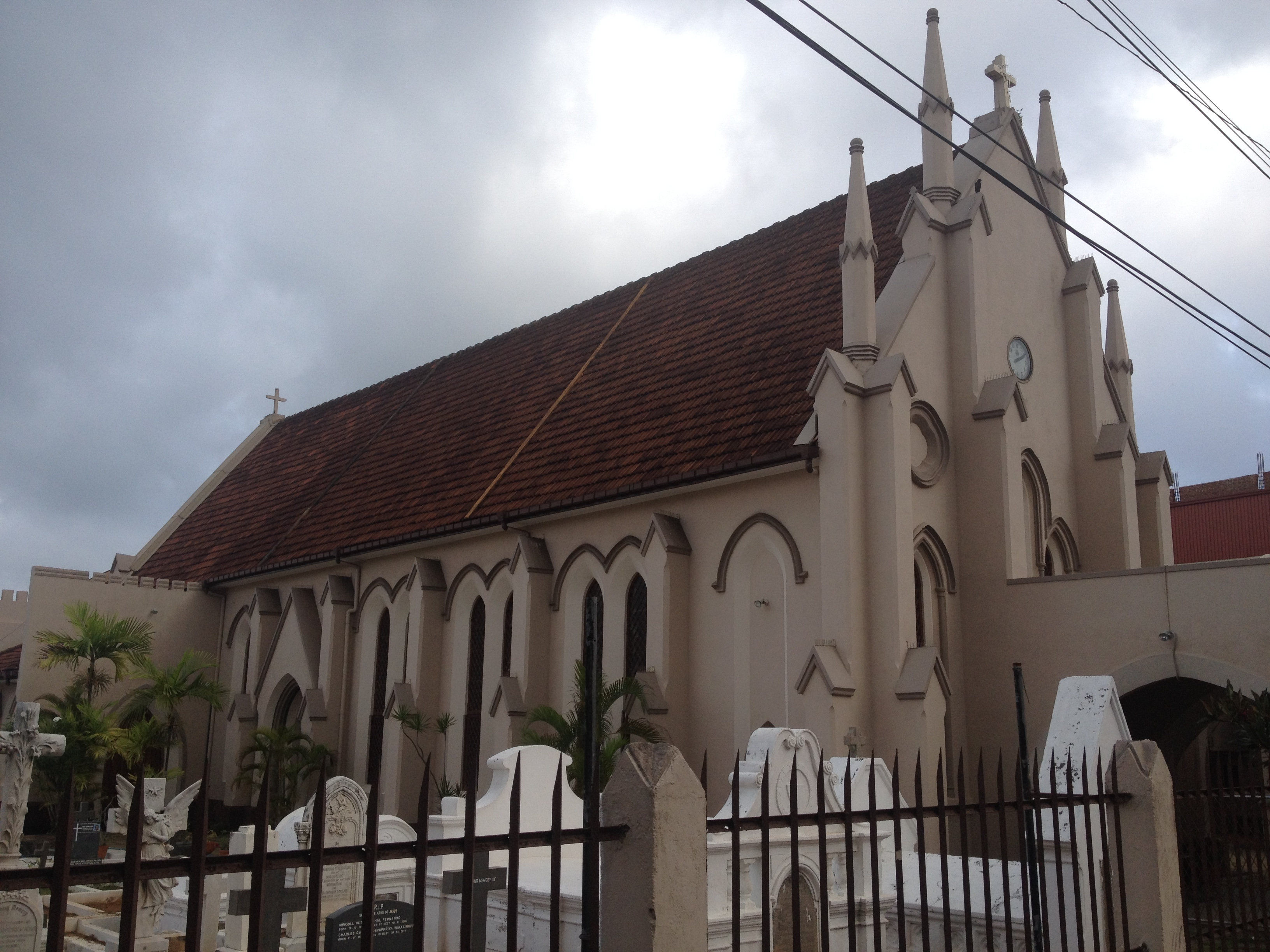 The church building and its graveyard. Christ Church, Galkissa, Sri Lanka